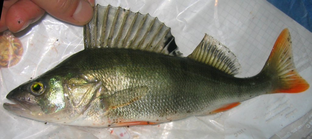 A photo of a European perch caught in the Rhein